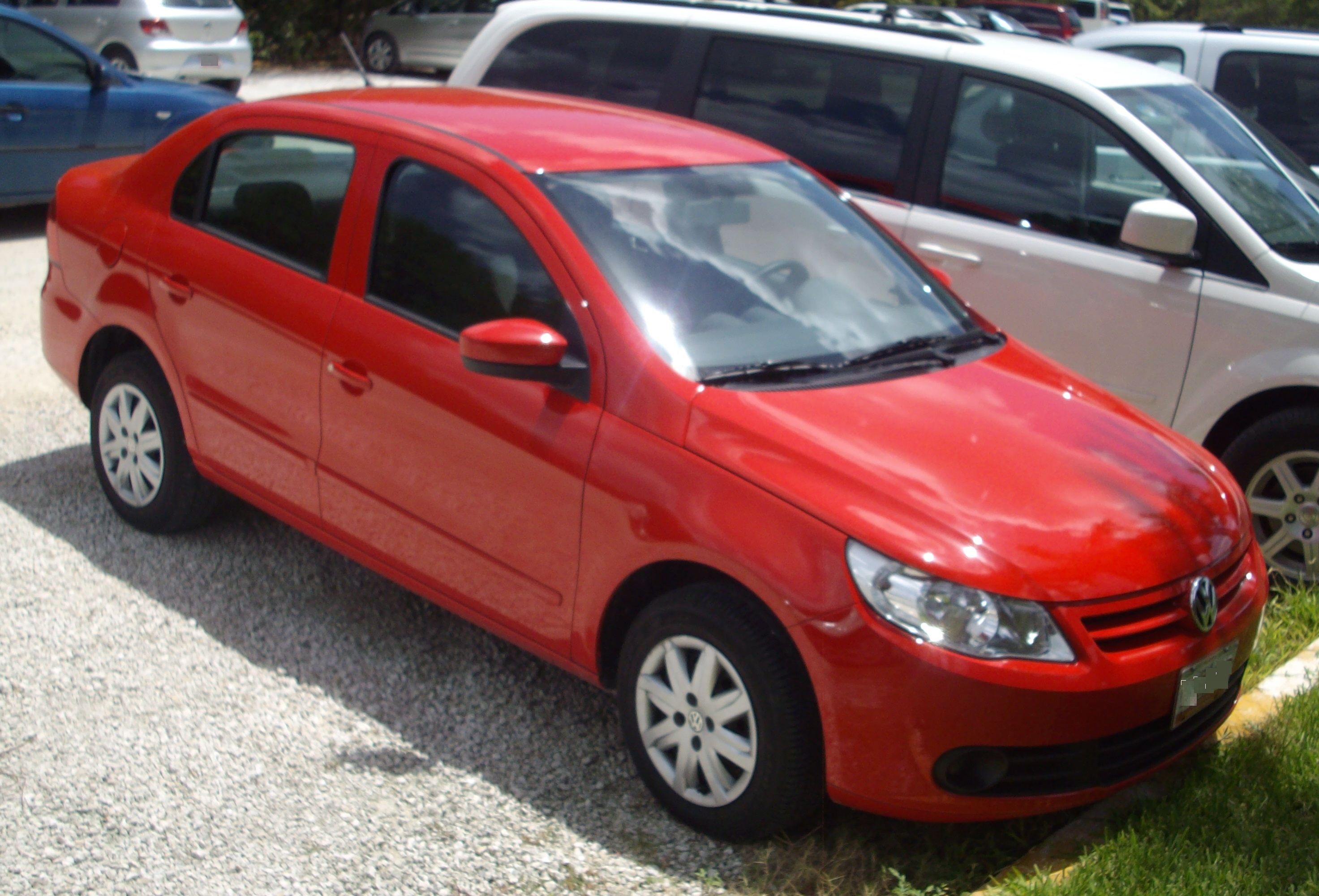 Volkswagen Gol photographed in Quintana Roo, Mexico.